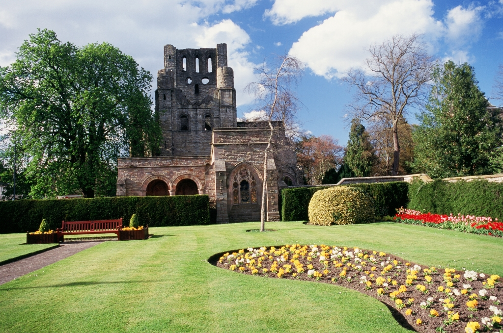 Kelso Abbey from the war memorial, Kelso (Scottish Borders).